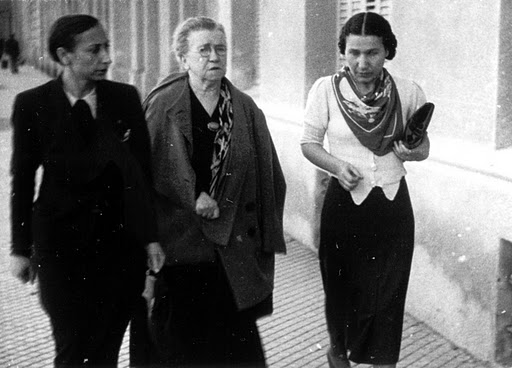 Lucía Sánchez Saornil walking with Emma Goldman and another woman